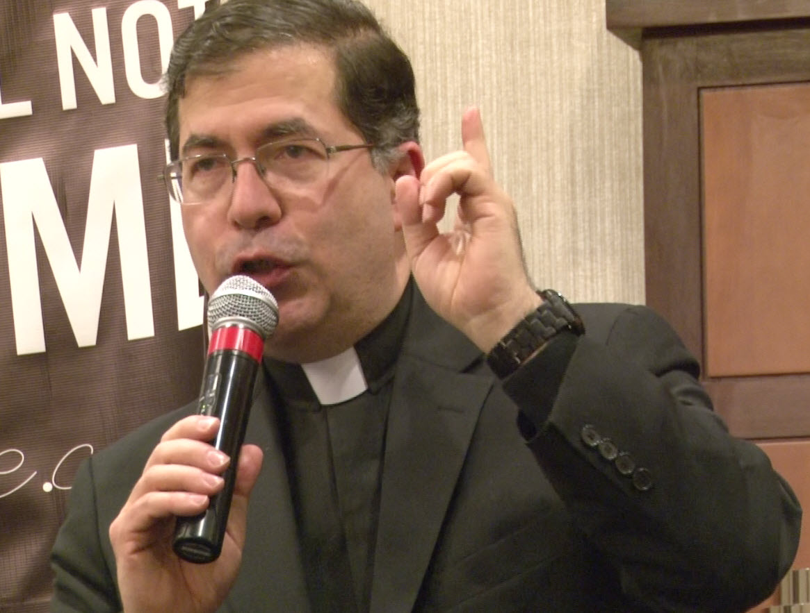 Father Frank Pavone speaking